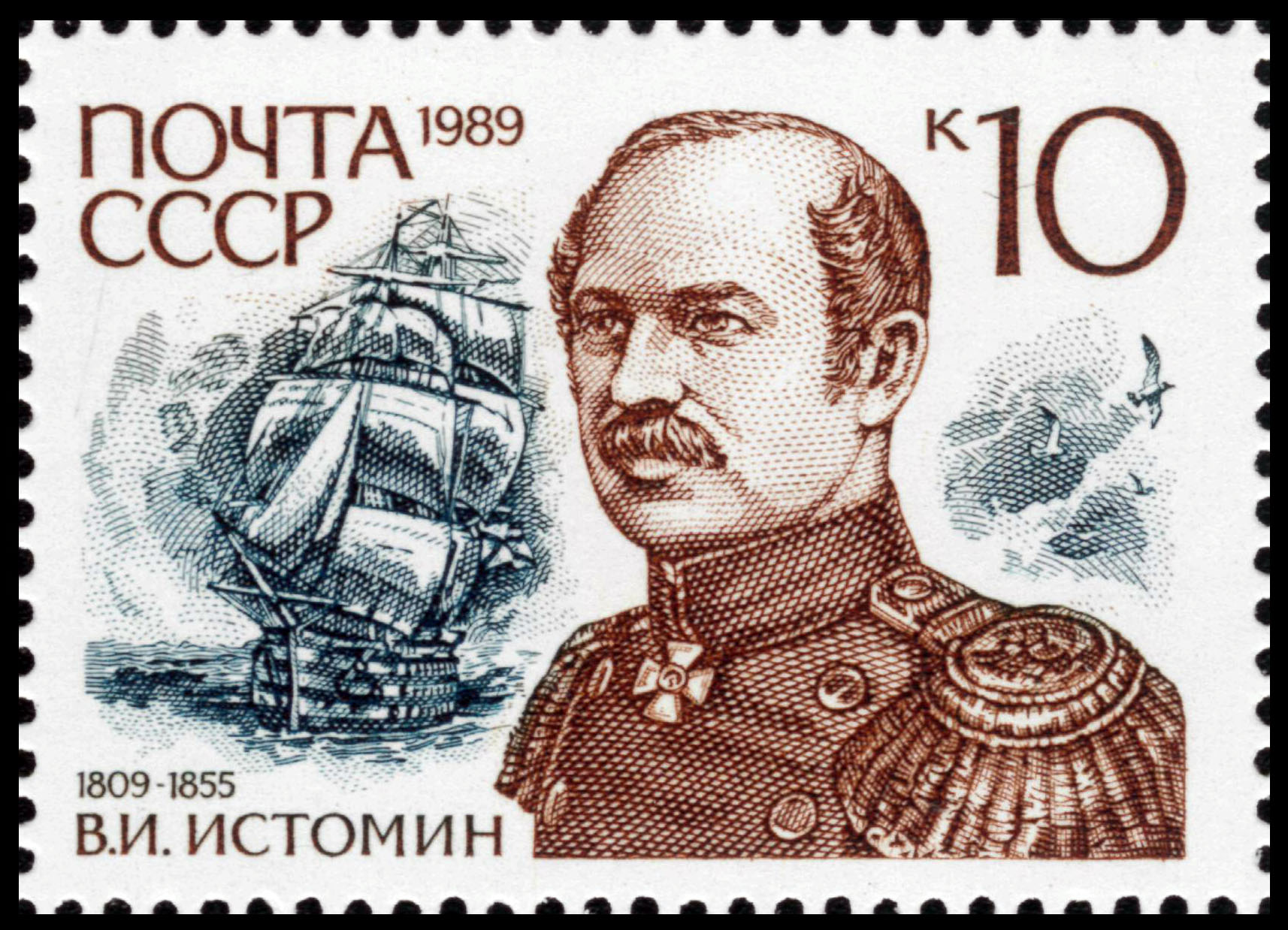 Russian Admirals. Istomin. USSR stamp from a stamp sheet of 6 USSR stamps, Russian Admirals, 1989.